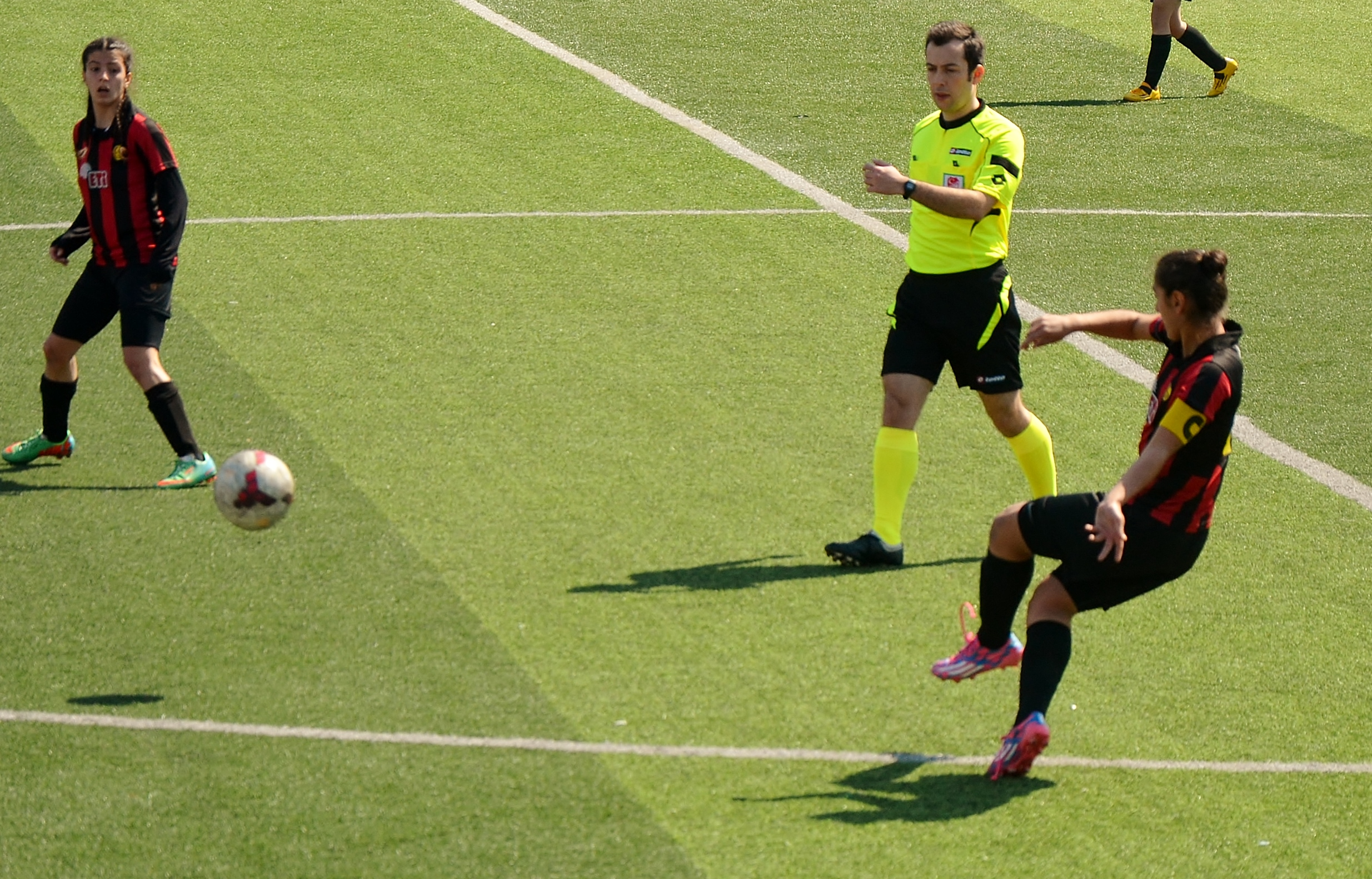 Damla Çoban playing for Eskişehirspor (women) in the away match of the 2014-15 season against Ataşehir Belediyespor.